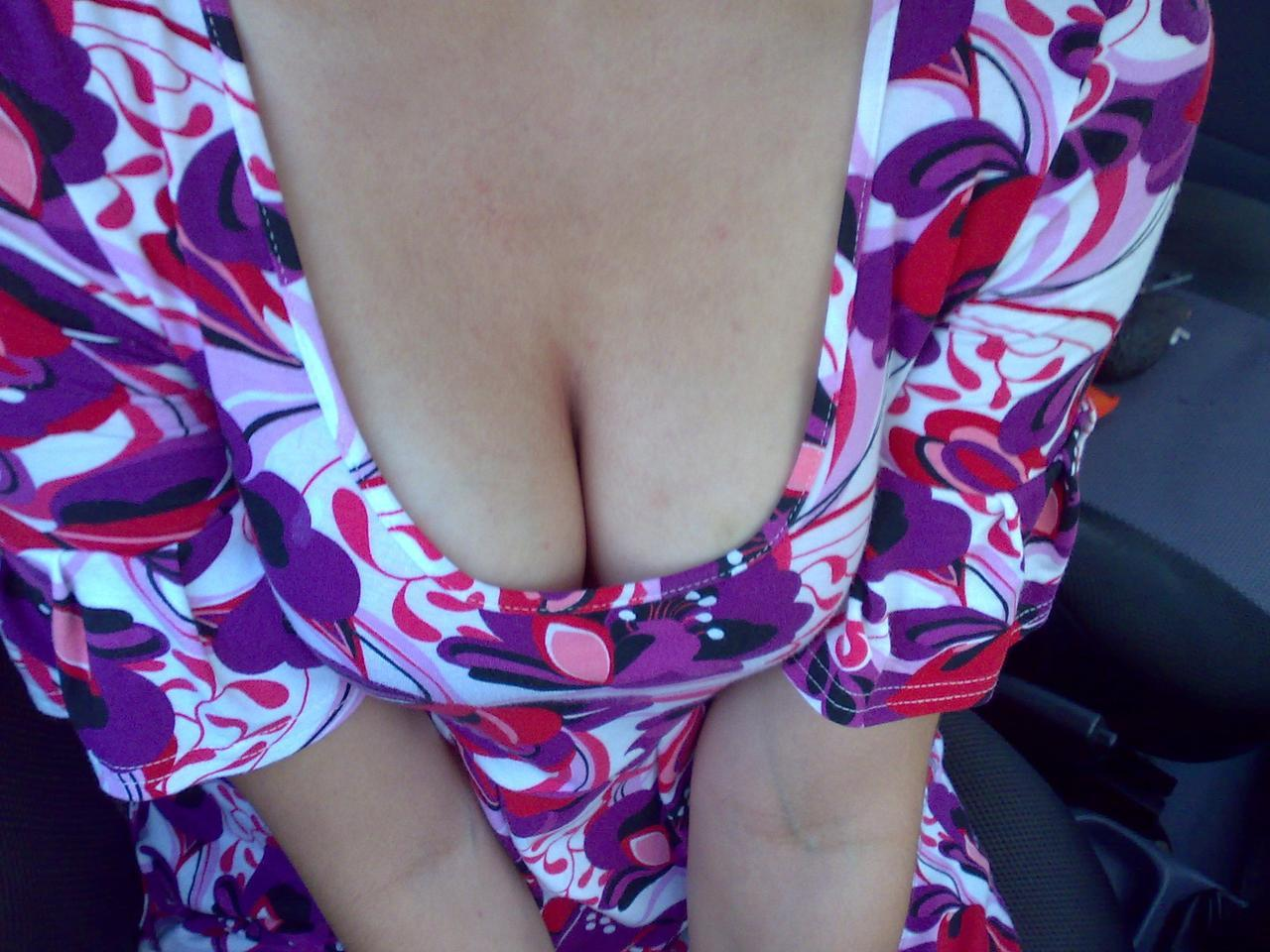 Photo taken on National Cleavage Day in South Africa - 4 April 2008.